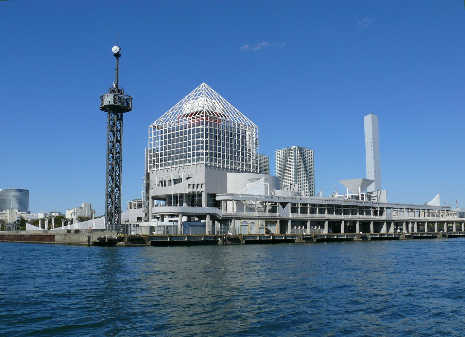 Sea side of Harumi passenger ship terminal in Tokyo port. (Chūō-ku,Tokyo Metropolis,Japan). See also Ja:東京港 for more information(written in Japanese). 東京港晴海ふ頭の晴海客船ターミナルの海側。 遊覧船のアーバンランチより撮影。